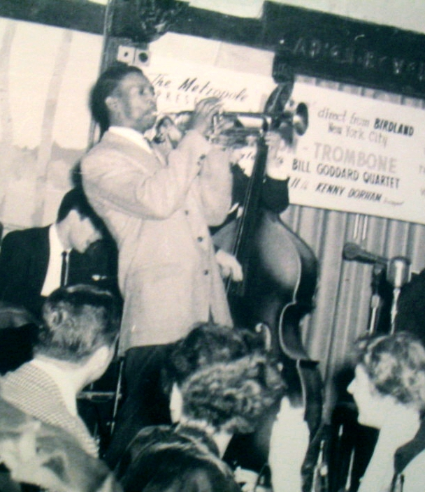 The banner on the wall says, Direct from Birdland New York City, Coming attactions: Sonny Stitt, Thelonious Monk, Wardell Grey, Kenny Dorham (pictured) other guests included Lee Morgan, Al Haig (who I am named after) and many more. Appearently Monk never showed up. However I did meet him once when I was about 7 years old at the Colonial Tavern. The Bill Goddard Quartet - Metropole Hotel in Toronto Bill Goddard tenor Sax- Herbie Helbig piano- Bob Shilling Bass & Fred Webster drums. The good ole daze!